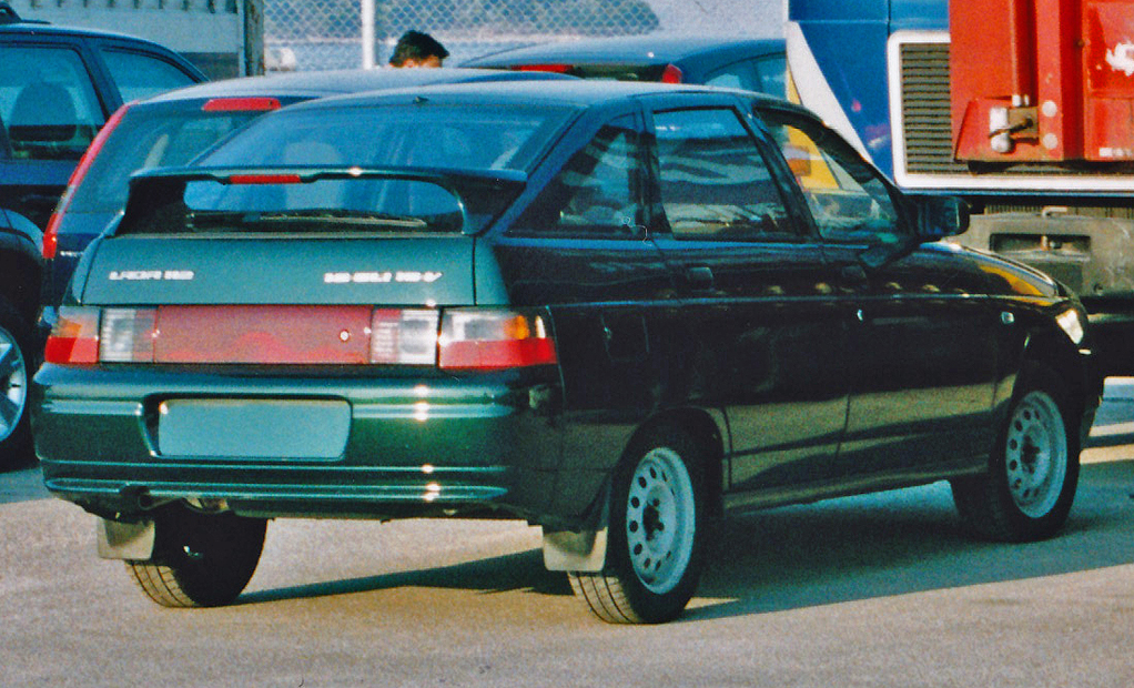 Lada 112 1.6 GLi 16V, seen in the Corfu harbour.